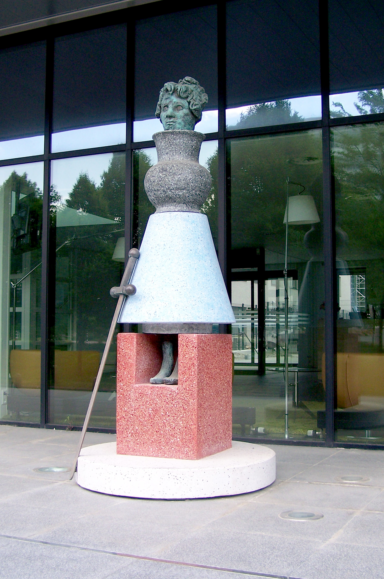 Sculpture "Beschermengel" (Guardian Angel) made by Nicolas Dings in 2007 for the NZa-Nederlandse Zorgautoriteit (Dutch Health Autority). Placed at the Newtonlaan in Utrecht in front of there officebuilding.